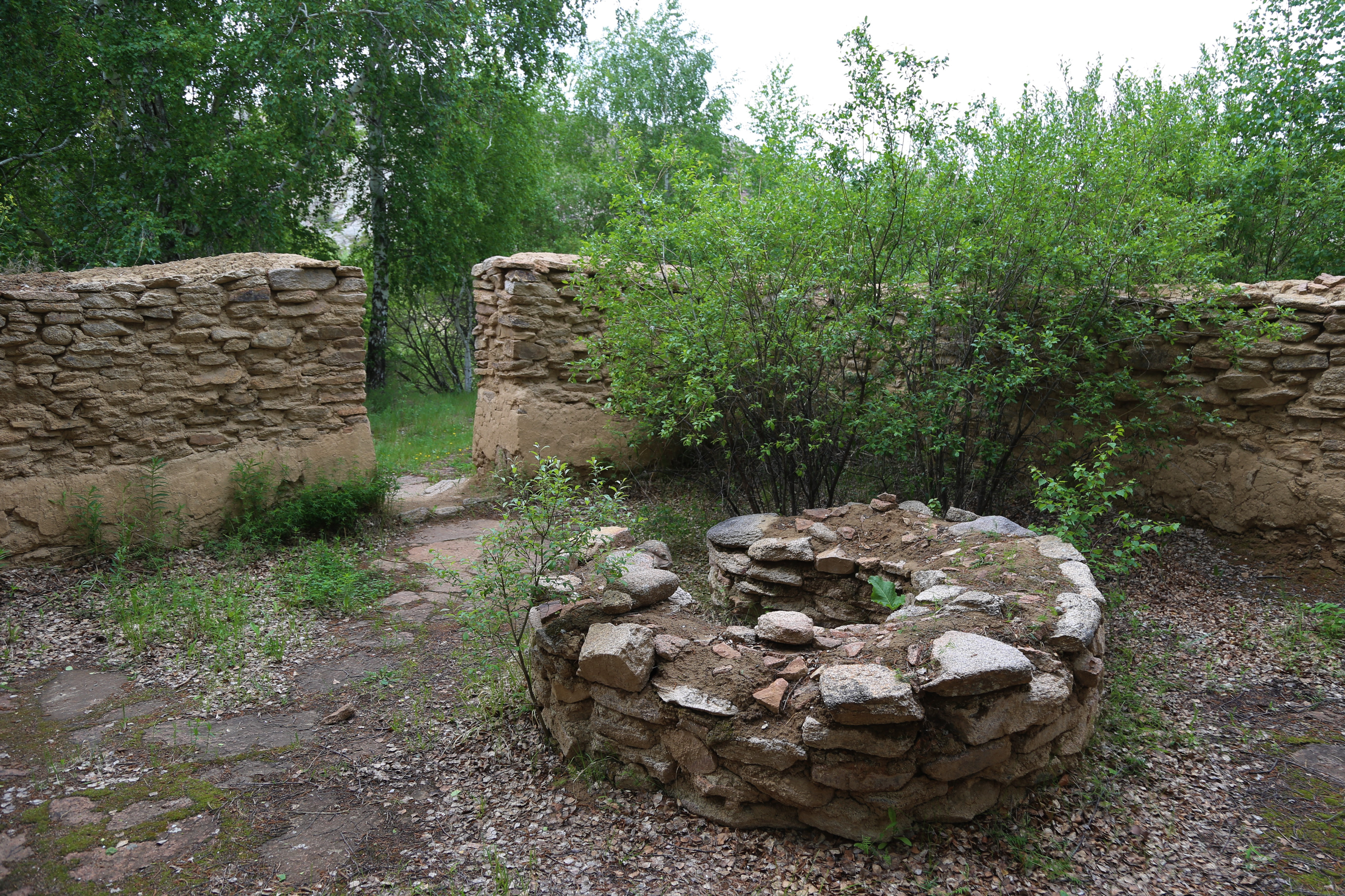 Kyzyl-Kenish